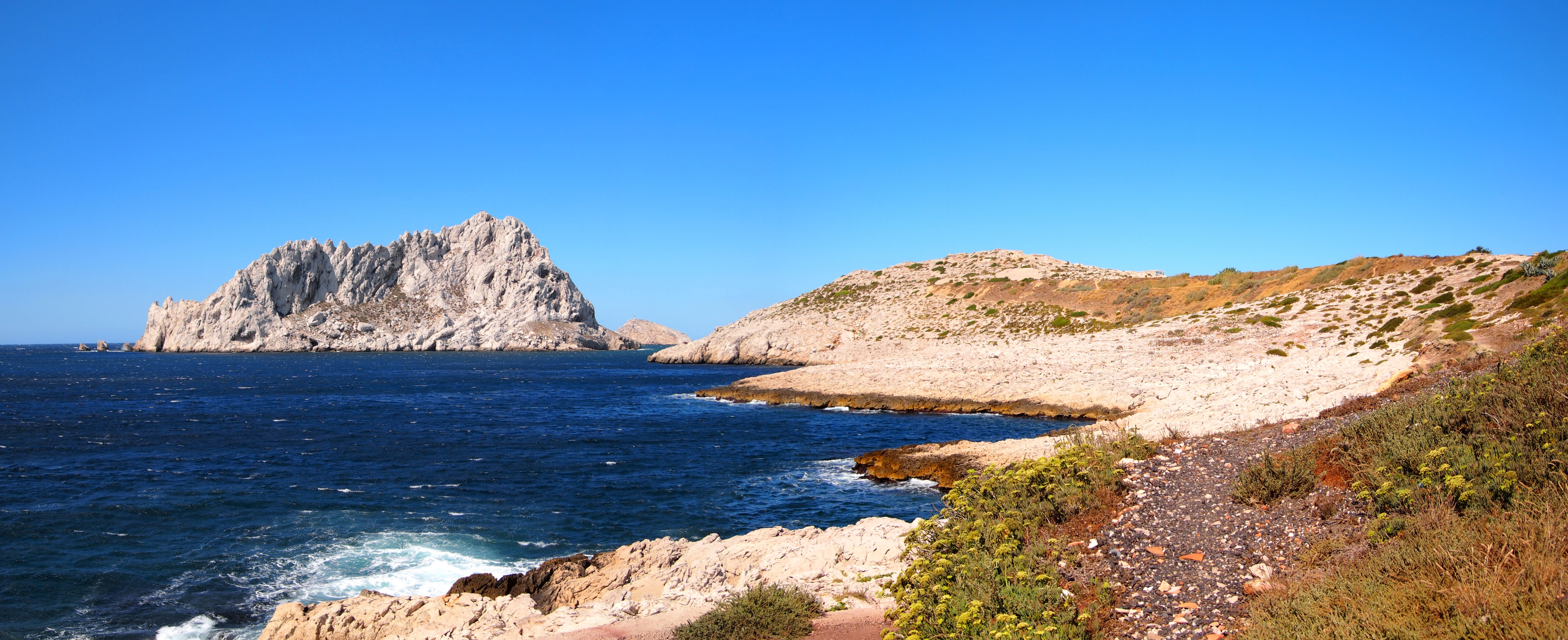 A view from Calanques area near Callelongue port into west.